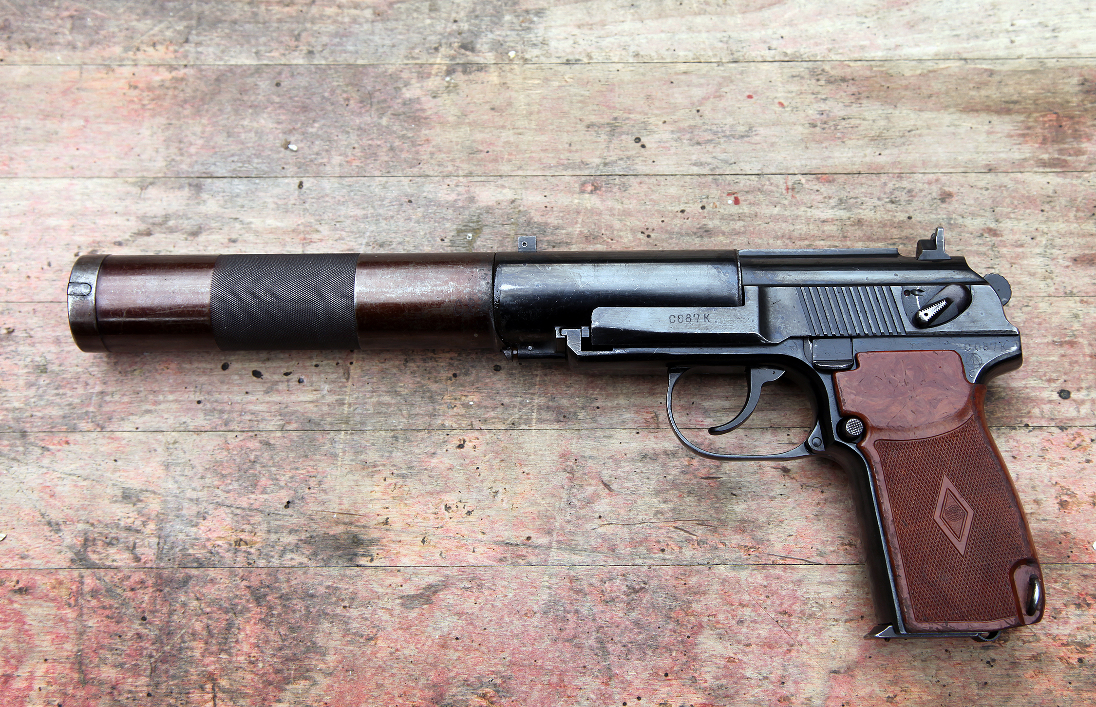 Walkaround of silent pistol 6P9 PB, based on PM pistol.